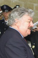 Freddy Thielemans, Mayor of Brussels